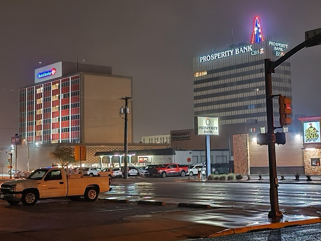 Downtown Odessa, Texas. Taken by me on March 21, 2020